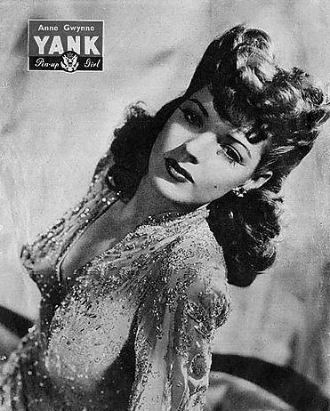 Pin-up photo of Anne Gwynne for the Jun. 11, 1944 issue of Yank, the Army Weekly, a weekly U.S. Army magazine fully staffed by enlisted men.